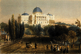 US Senate Graphic Arts Collection View of the Capitol at Washington by William H. Bartlett Hand-colored engraving Sight measurement Height: 4.75 inches (12.07 cm) Width: 7.125 inches (18.1 cm) Cat. no. 38.00210.000